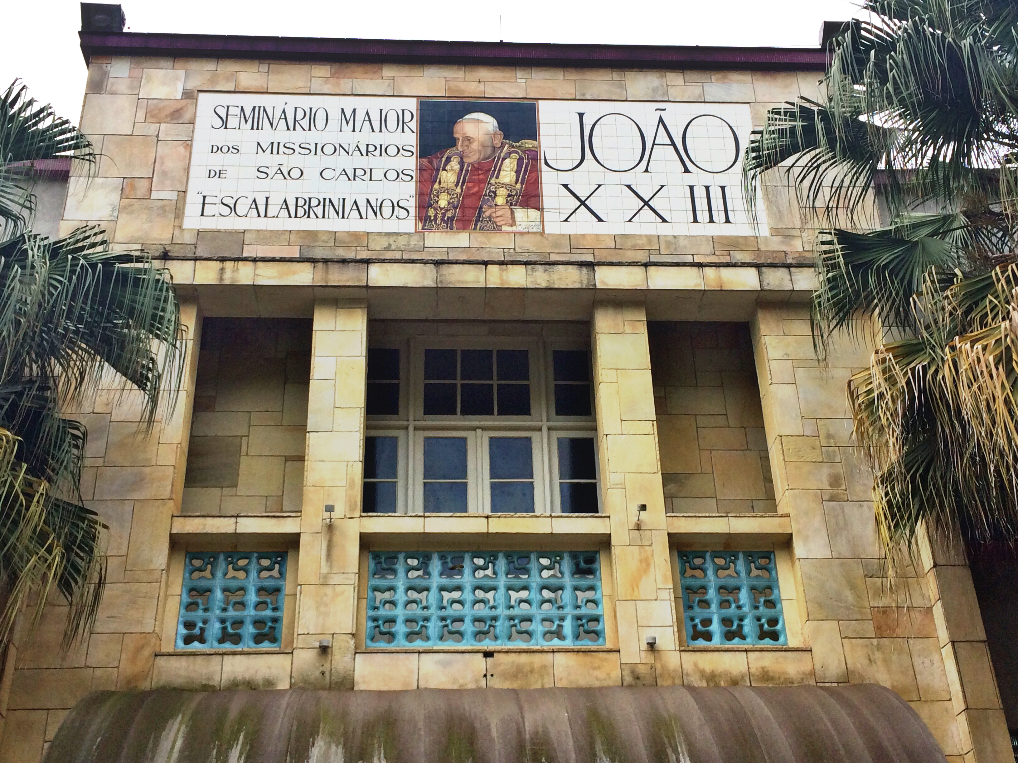 Detalhe da Fachada do Seminário João XXIII, em São Paulo (SP), Brasil.